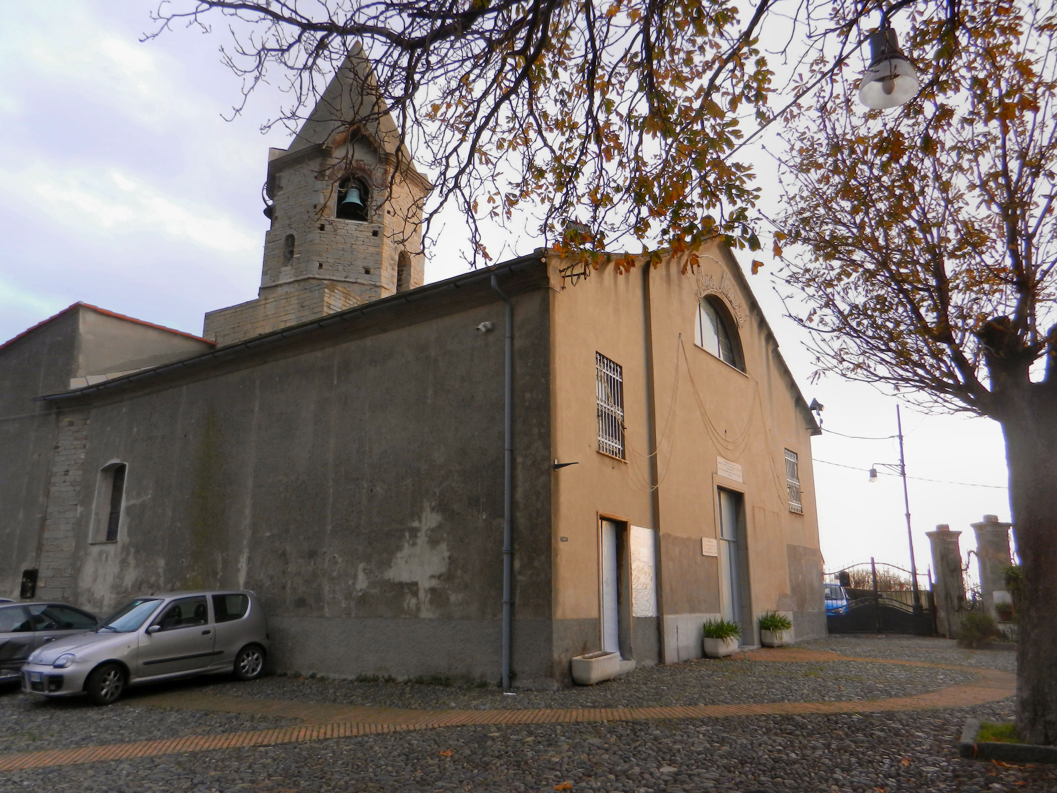 Genoa, Italy, quarter of Sampierdarena, church of San Bartolomeo at Promontorio